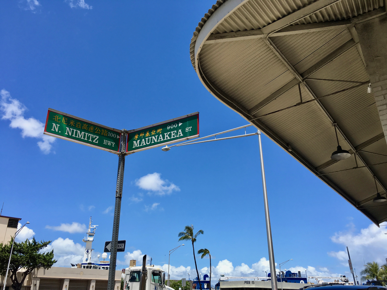 Street sign in Honolulu Chinatown. Stated in N Nimitz Hwy - Maunakea St. In Honolulu Chinatown, the street sign will be different than usual signs; which is red framed and written in English and Chinese character.